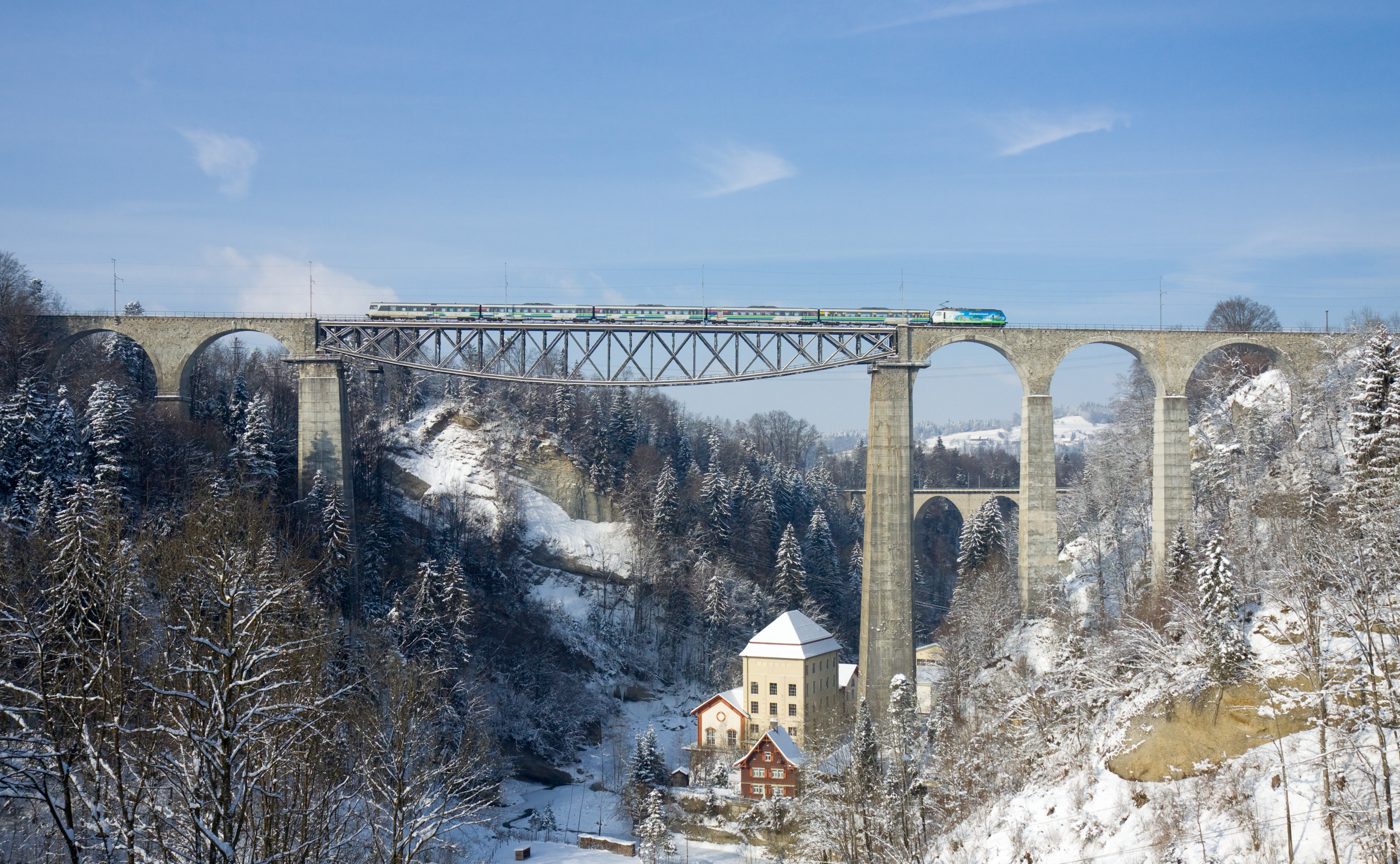 The Sittertobel viaduct is the highest standard-gauge railway bridge of Europe. The rails are 99 m above the water line. In this picture, an hourly Südostbahn "Voralpenexpress" service (Lucerne - Romanshorn), hauled by an Re 456, is crossing the bridge.